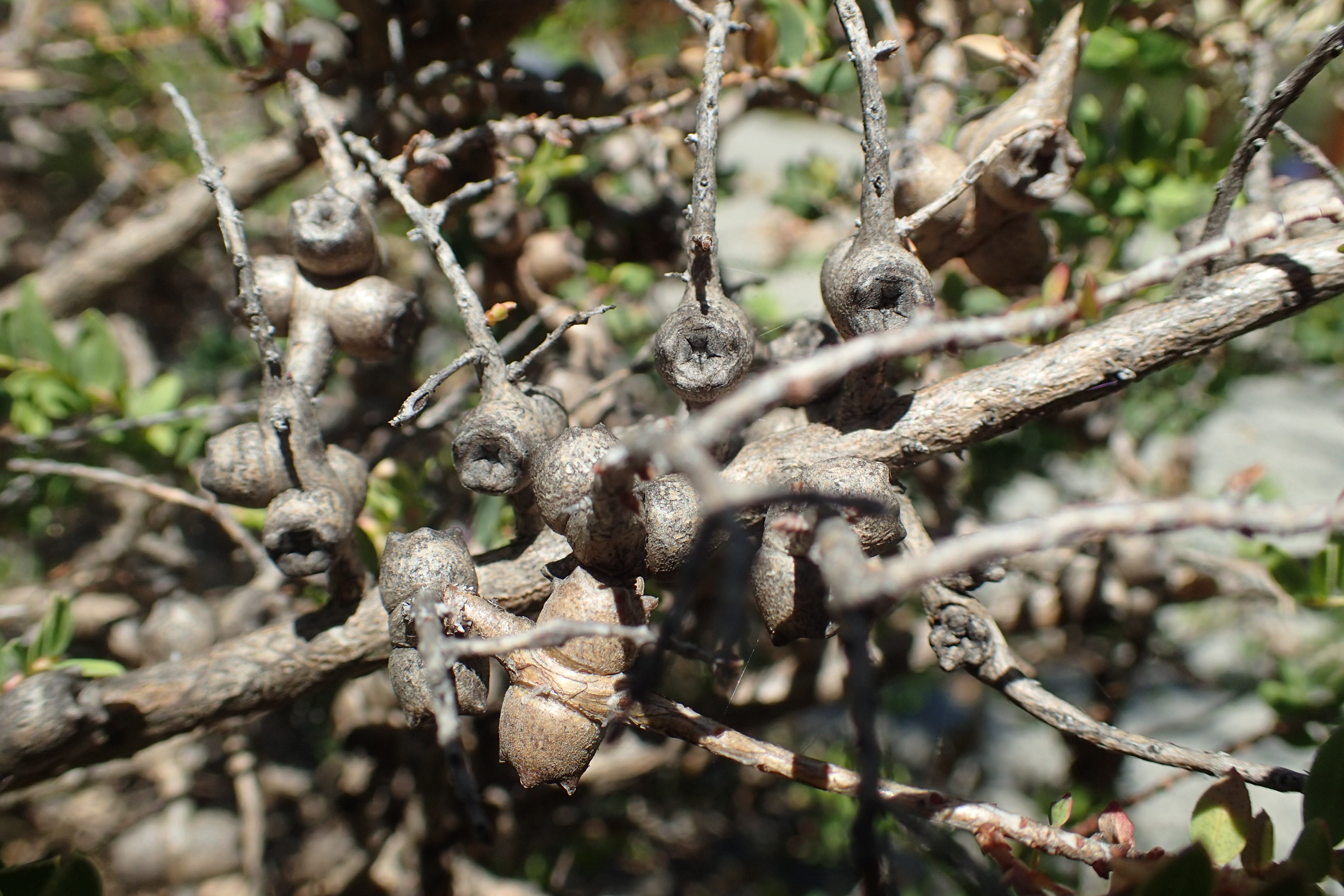 Fruit of Melaleuca platycalyx on a specimen in Kings Park Botanic Garden